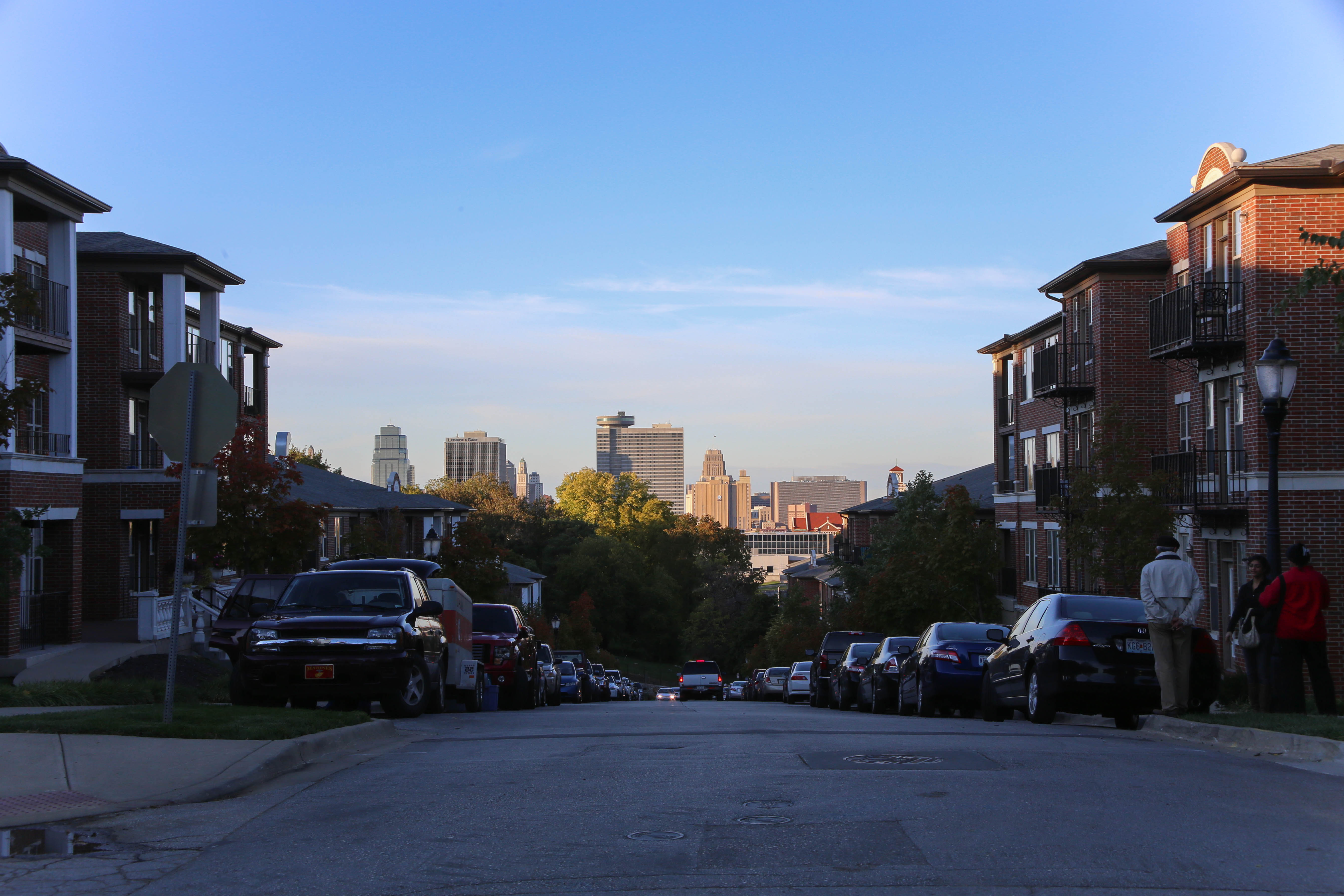 Union Hill Kansas City